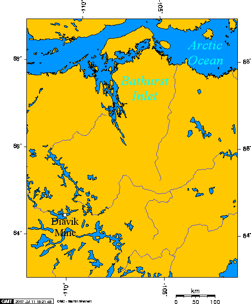 Lambert Projection showing the Diavik Diamond Mine, near Barthurst Inlet, Nunavut